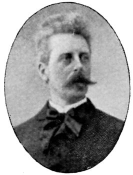 Image scanned from the book "Svenskt Porträttgalleri XX - Arkitekter, Bildhuggare, Målare m.fl. " ("Swedish Portrait Gallery XX - Architects, Sculptors, Painters, ") published 1901